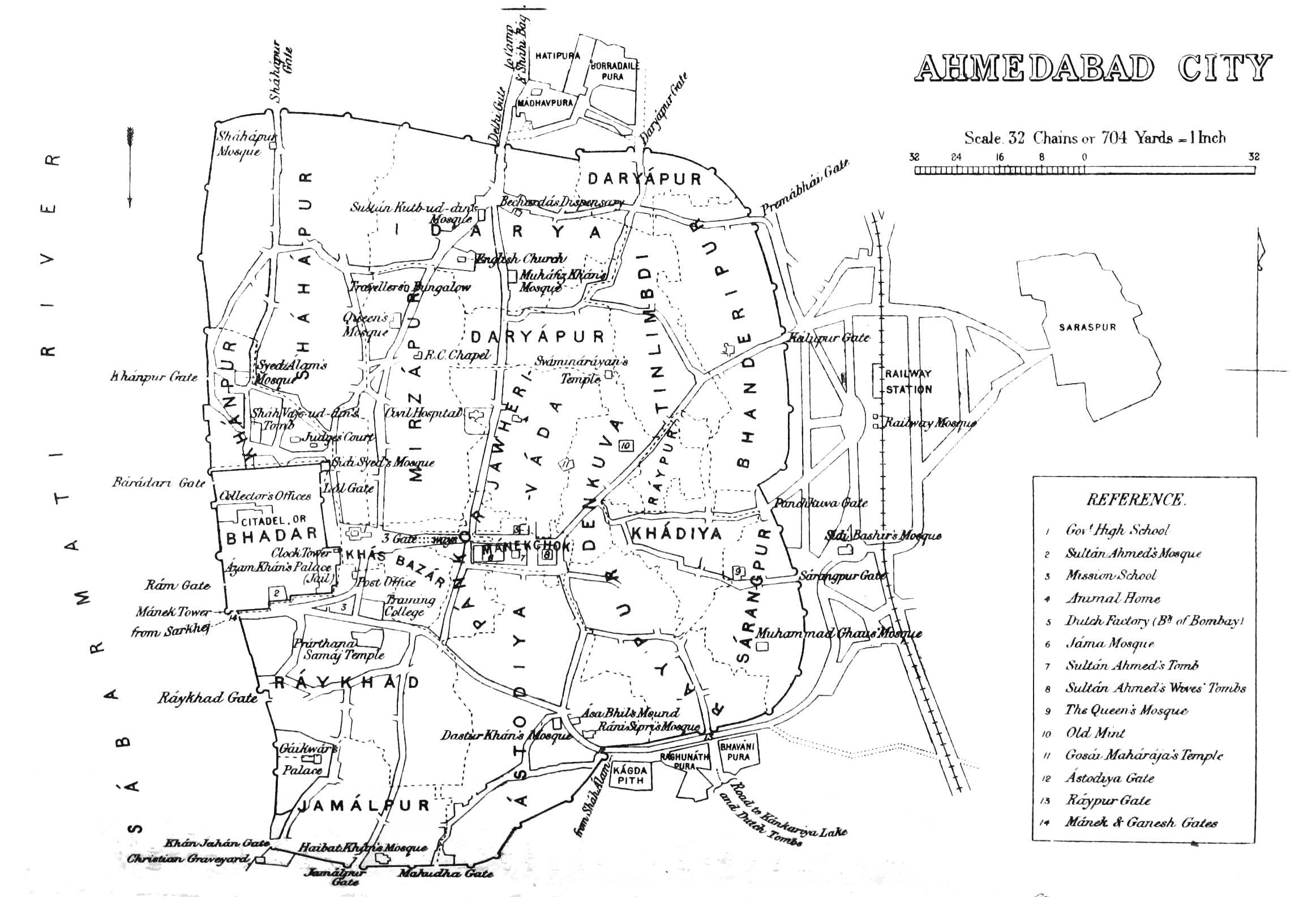 Map of Ahmedabad